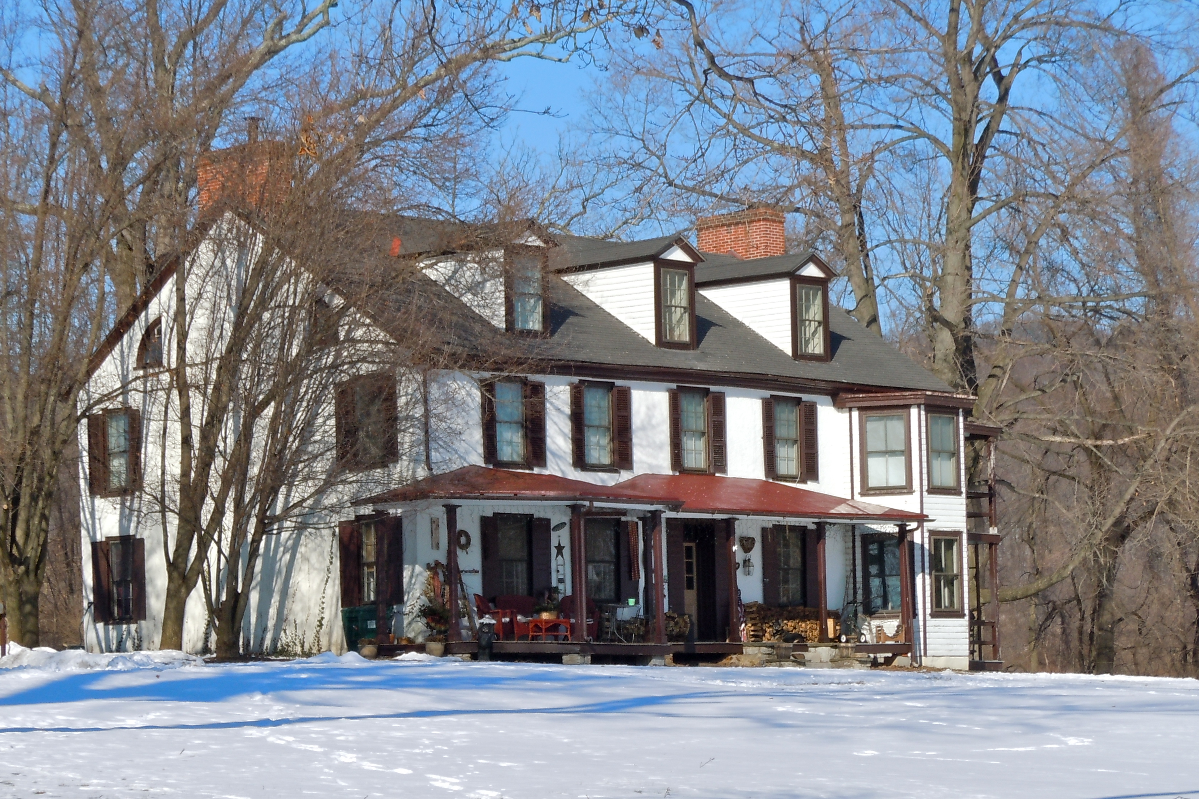 Benjamin Jacobs House on the NRHP since August 2, 1984, at 325 North Ship Road in West Whiteland Township, Chester County, near Exton, Pennsylvania